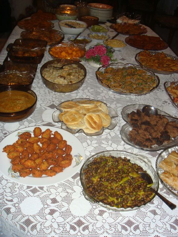 Some common items in Iftar